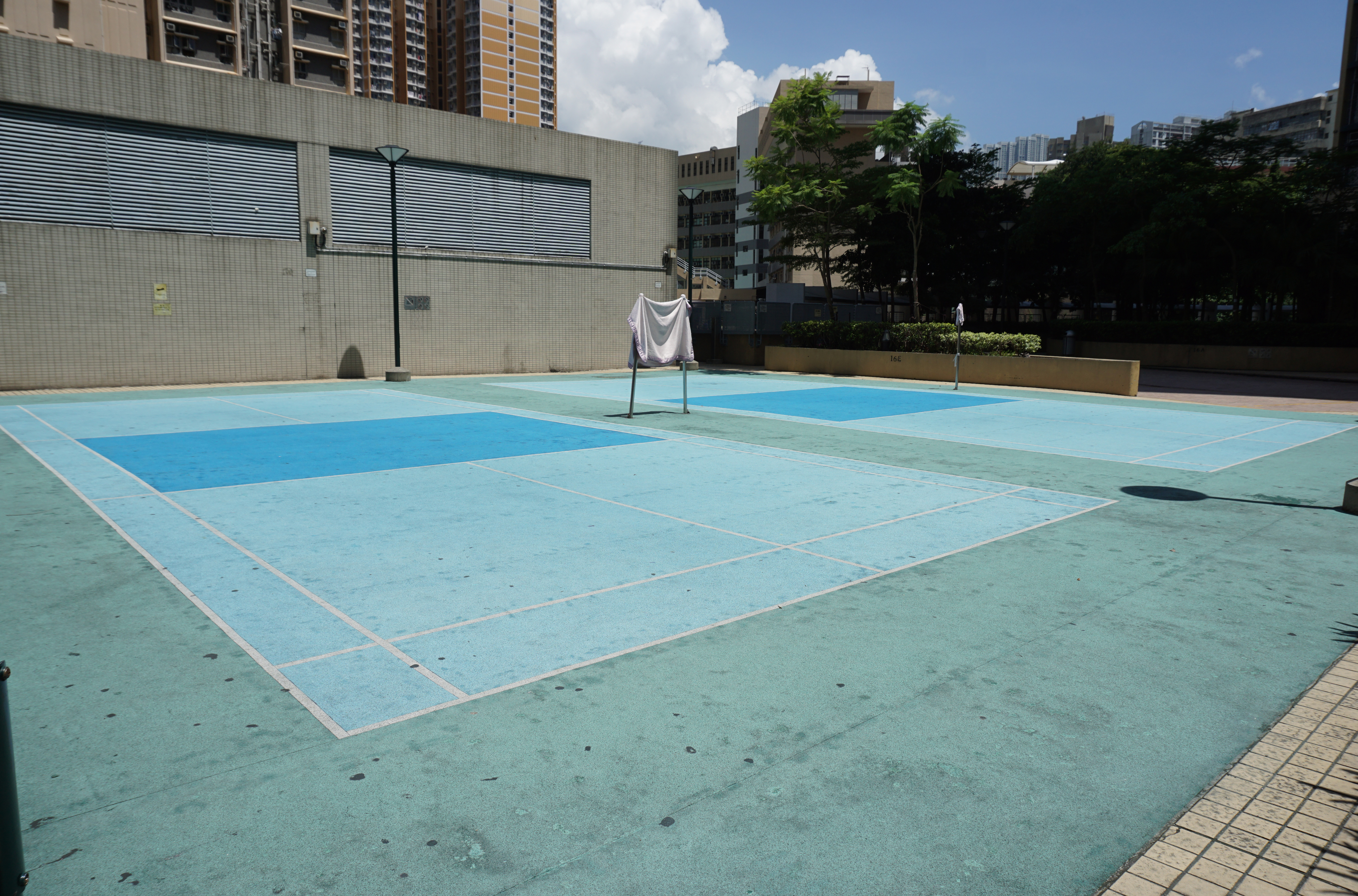 Kwai Chung Estate in Kwai Chung, Hong Kong.